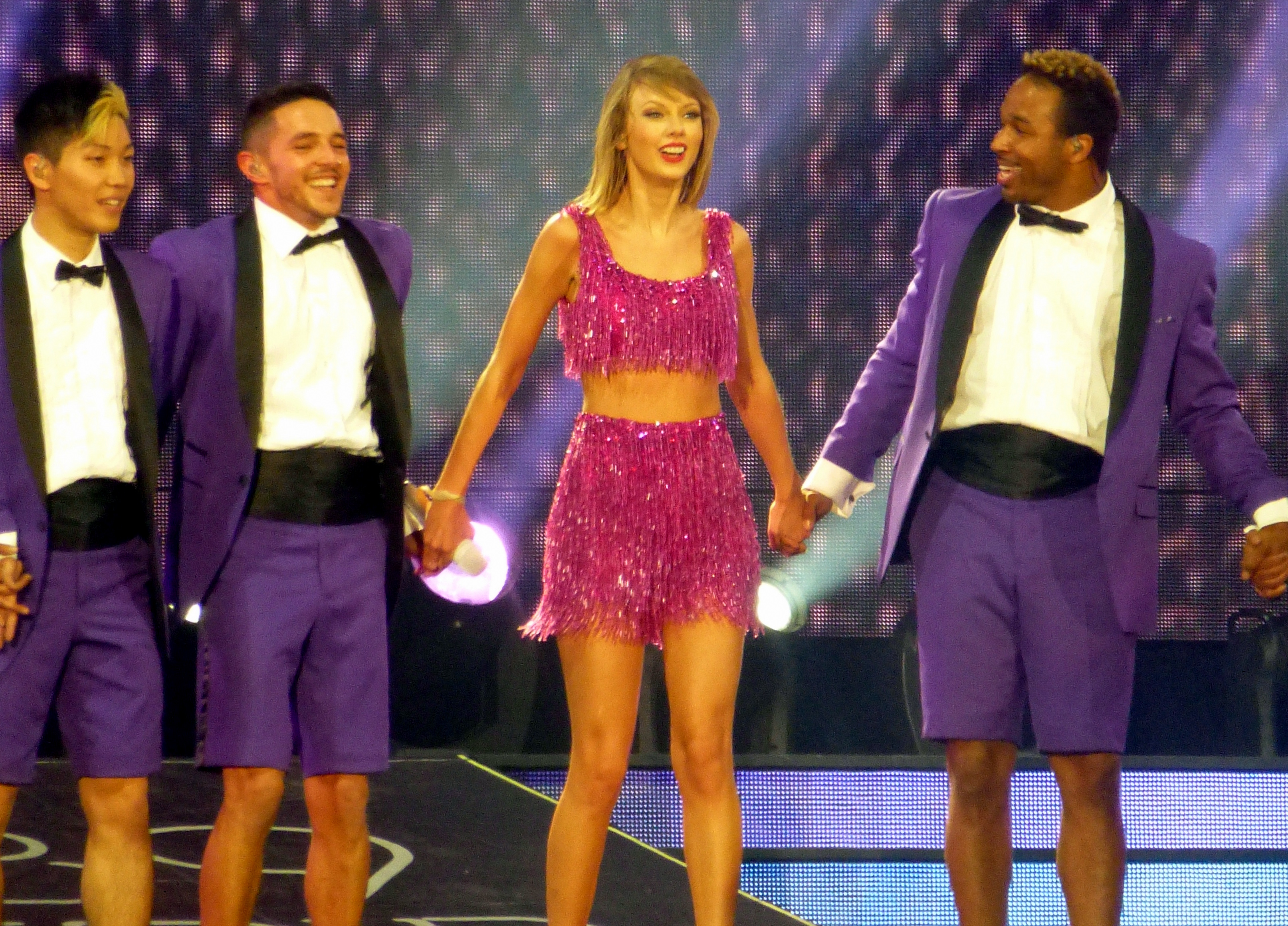 Taylor Swift 1989 Tour at Ford Field in Detroit, 5/30/15